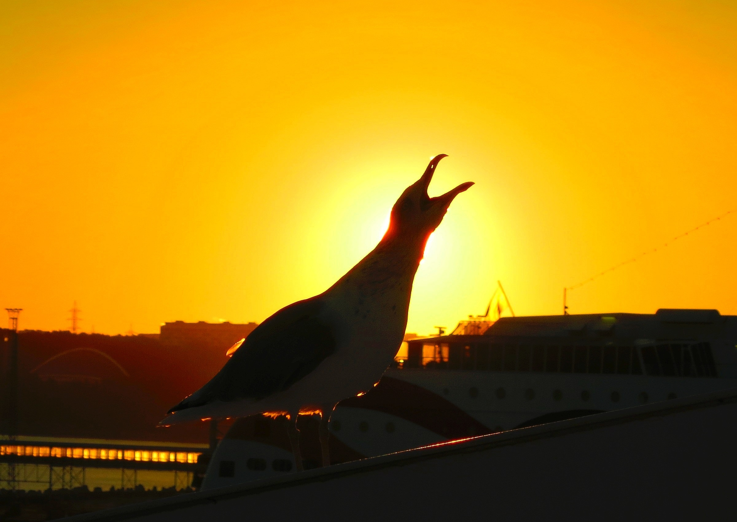 Larus argentatus in Tallinn Passenger Port in early morning